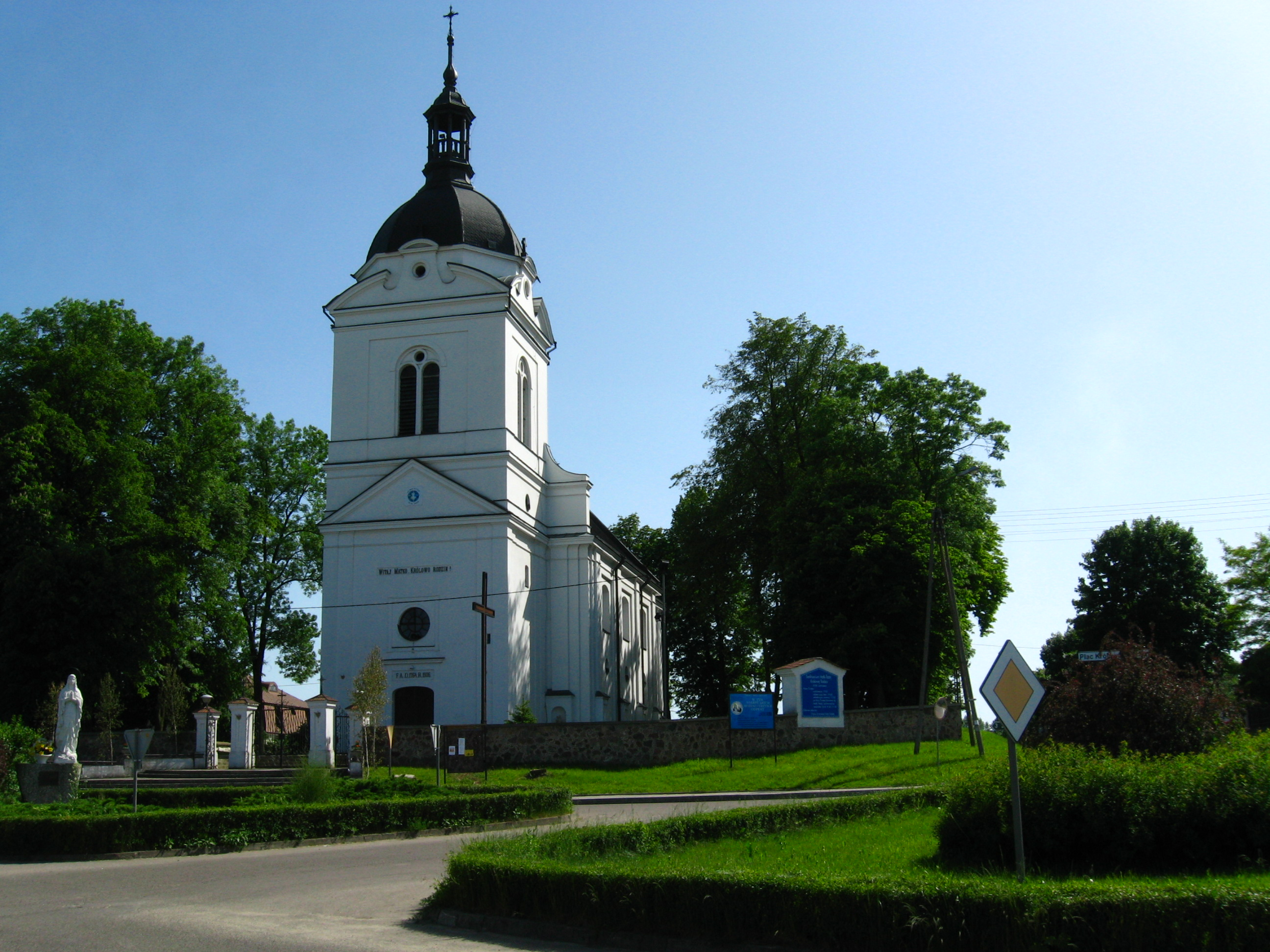 Roman–catholic church of Holy Trinity from 1788 at Juchnowiec